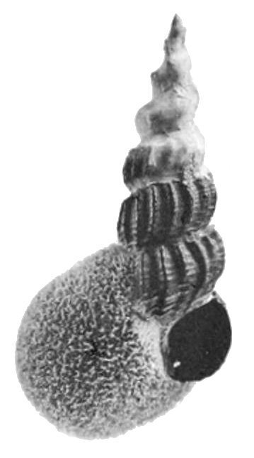 Black and white photo of an apertural view of a shell of Tylomelania centaurus partly covered by a sponge Pachydictyum globosum Weltner. This shell is a holotype, NMB 1339a (Naturhistorisches Museum, Basel).[1] ↑ von Rintelen T. & Glaubrecht M. (2005). "Anatomy of an adaptive radiation: a unique reproductive strategy in the endemic freshwater gastropod Tylomelania (Cerithioidea: Pachychilidae) on Sulawesi, Indonesia and its biogeographical implications." Biological Journal of the Linnean Society 85: 513–542.